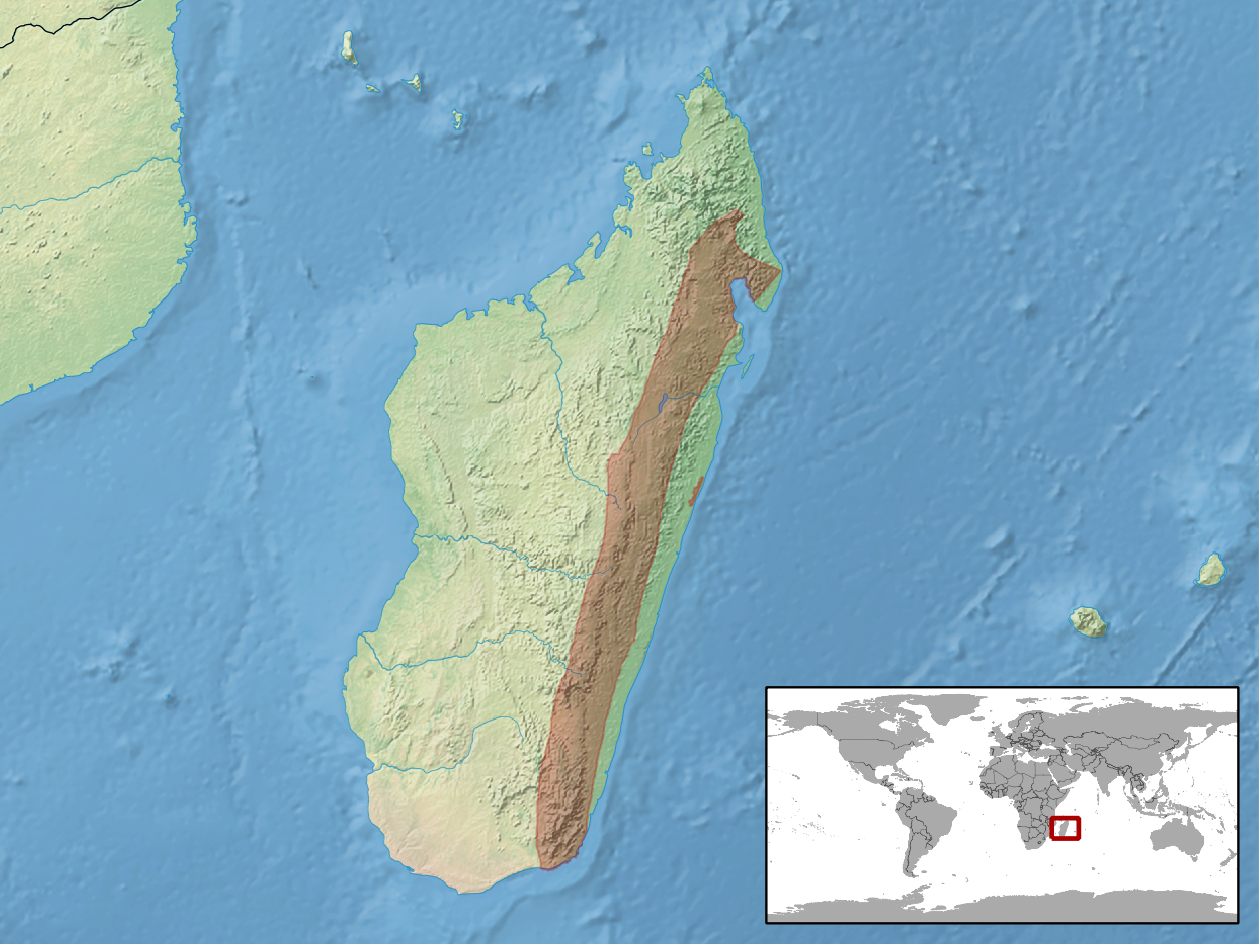 geographic distribution of Lygodactylus miops (Native: Madagascar)